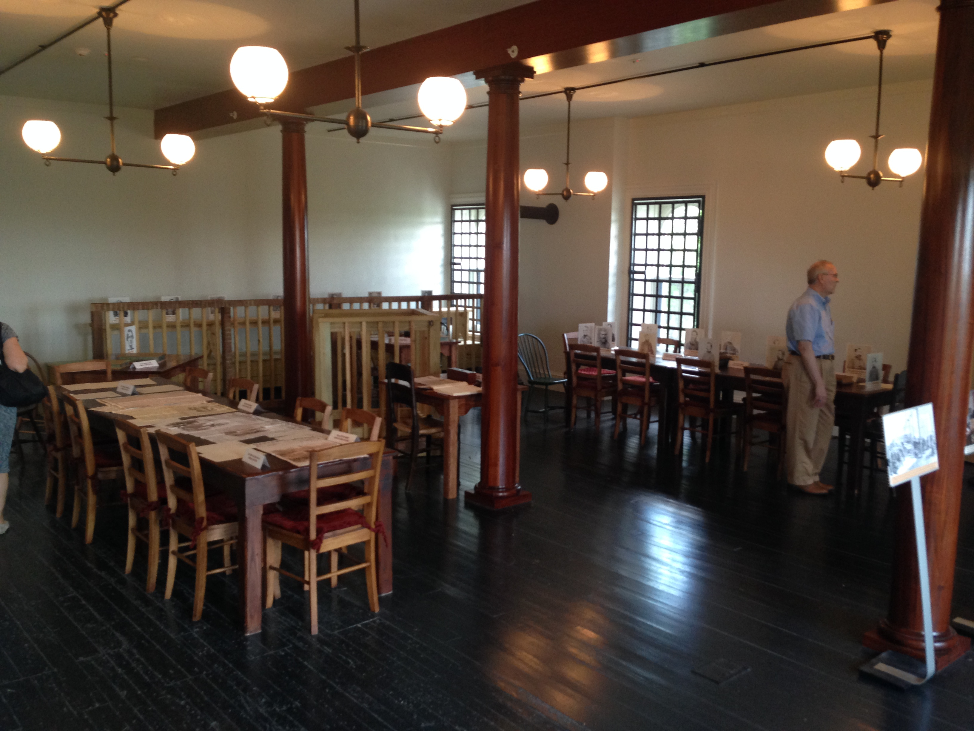 Picture of the room where the Lincoln Assassination conspirators were tried at the 1865 Abraham Lincoln Military Tribunal Conspiracy Trial. Photo taken by Ted Gehring in summer of 2015.